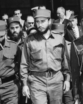 April 1959: Special Agent Leo Crampsey of Office of Security (SY) (left) escorts Cuba's new Premier Fidel Castro (center) during a visit to Washington, DC, shortly after the January revolution in Cuba